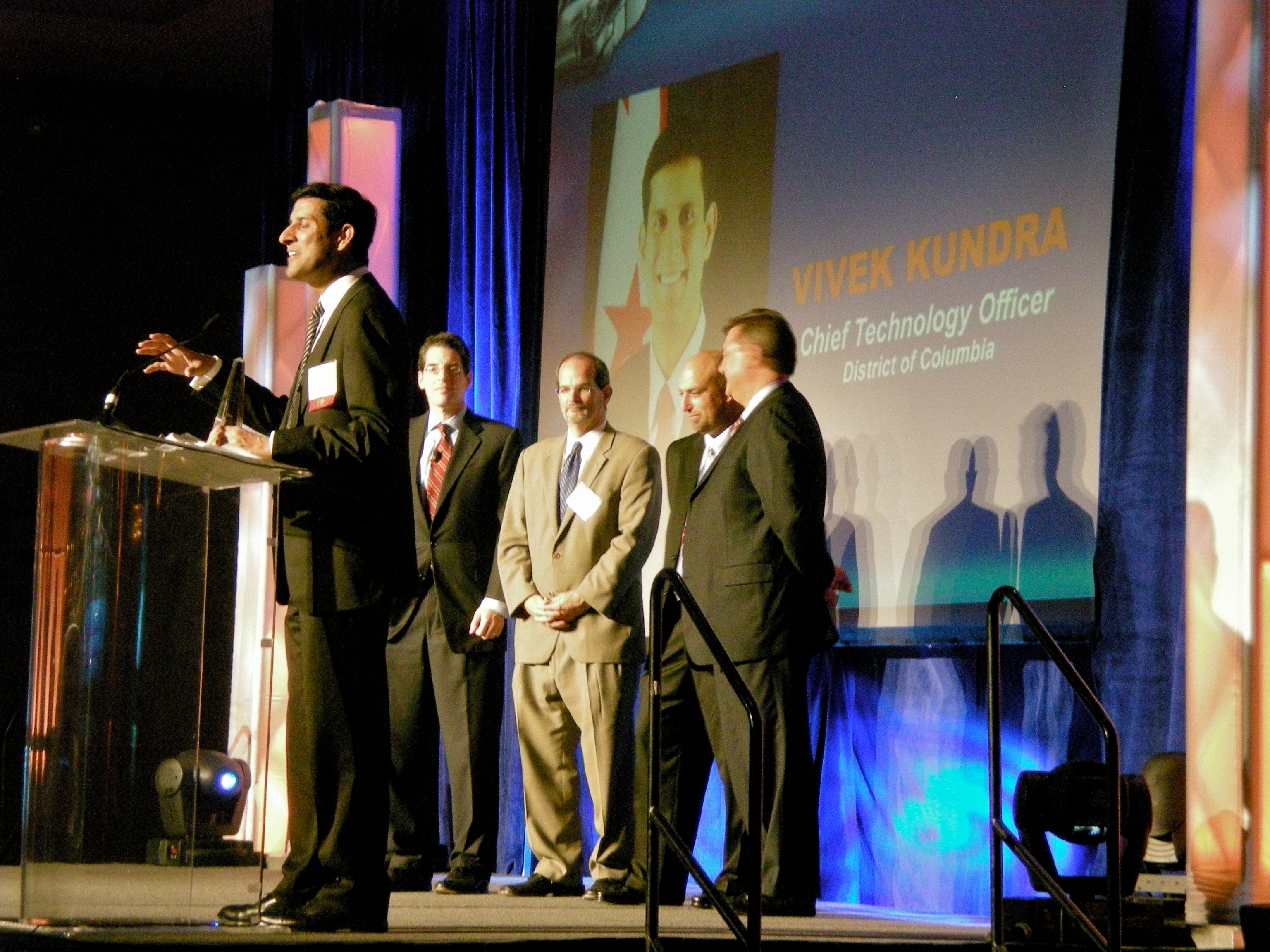 Md High Tech Council CIO CTO Live 2008: Vivek Kundra